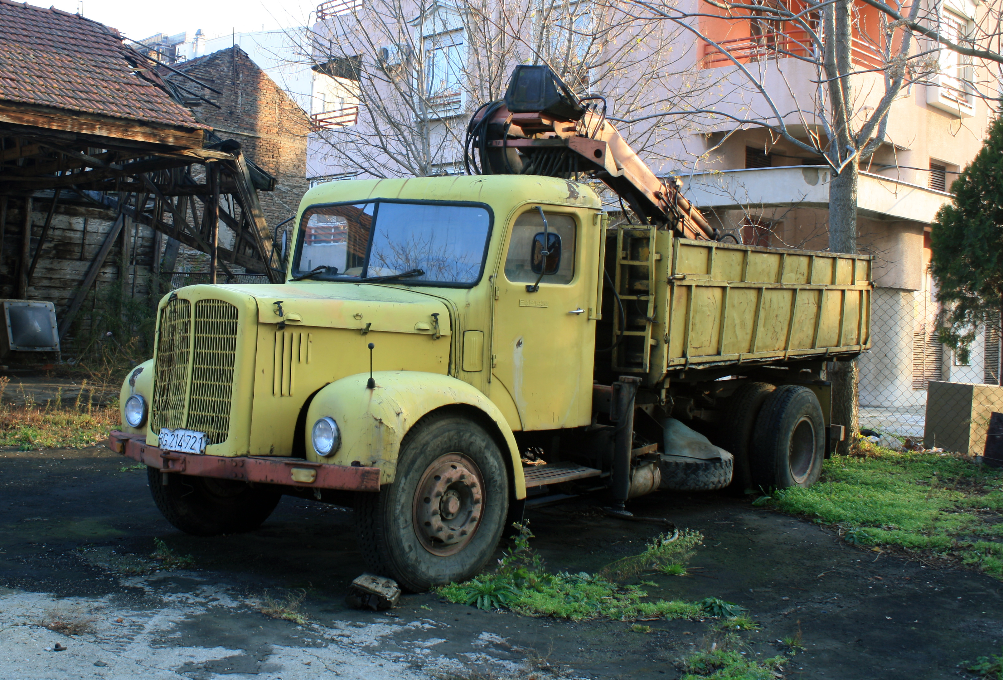 Old FAP 1414 truck with crane in Belgade.